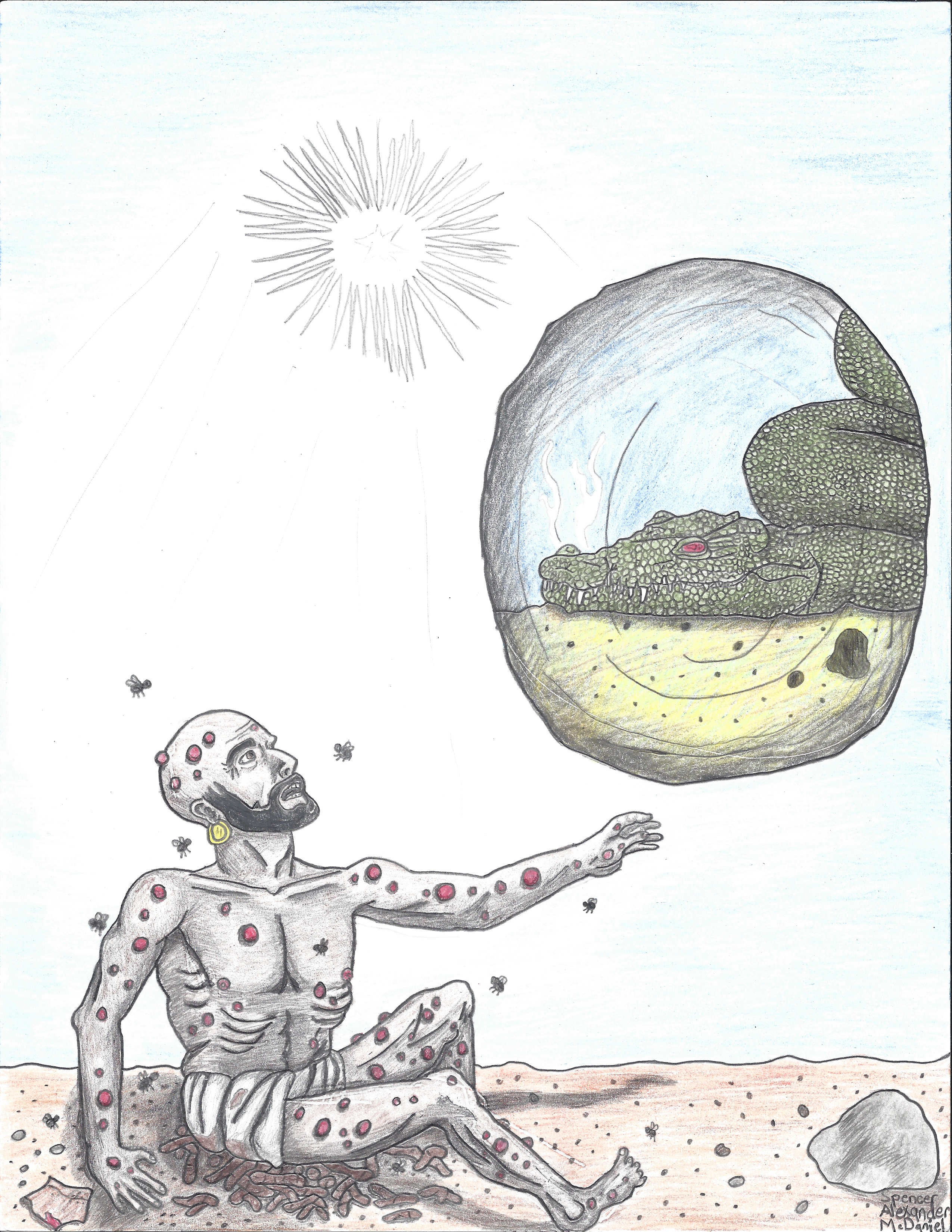 This is a pencil illustration by Spencer Alexander McDaniel of a scene from the Book of Job, chapter 41, in which God describes the Leviathan, a monstrous sea creature, to Job. For this drawing, the artist took some creative liberties and imagined God actually showing Job the Leviathan through a vision. The artist originally drew this picture in around 2015 or 2016 when he was in high school, but he revised it in April 2020, adding some more shading to make the picture more realistic and a bit less cartoonish. He drew some inspiration for Job's appearance and posture from this illustration for the Book of Job, chapter 19, from Sweet Media, which is licensed under CC-BY-SA 3.0. Nonetheless, it should be obvious from a comparison of the two images that he made quite a few substantial changes.